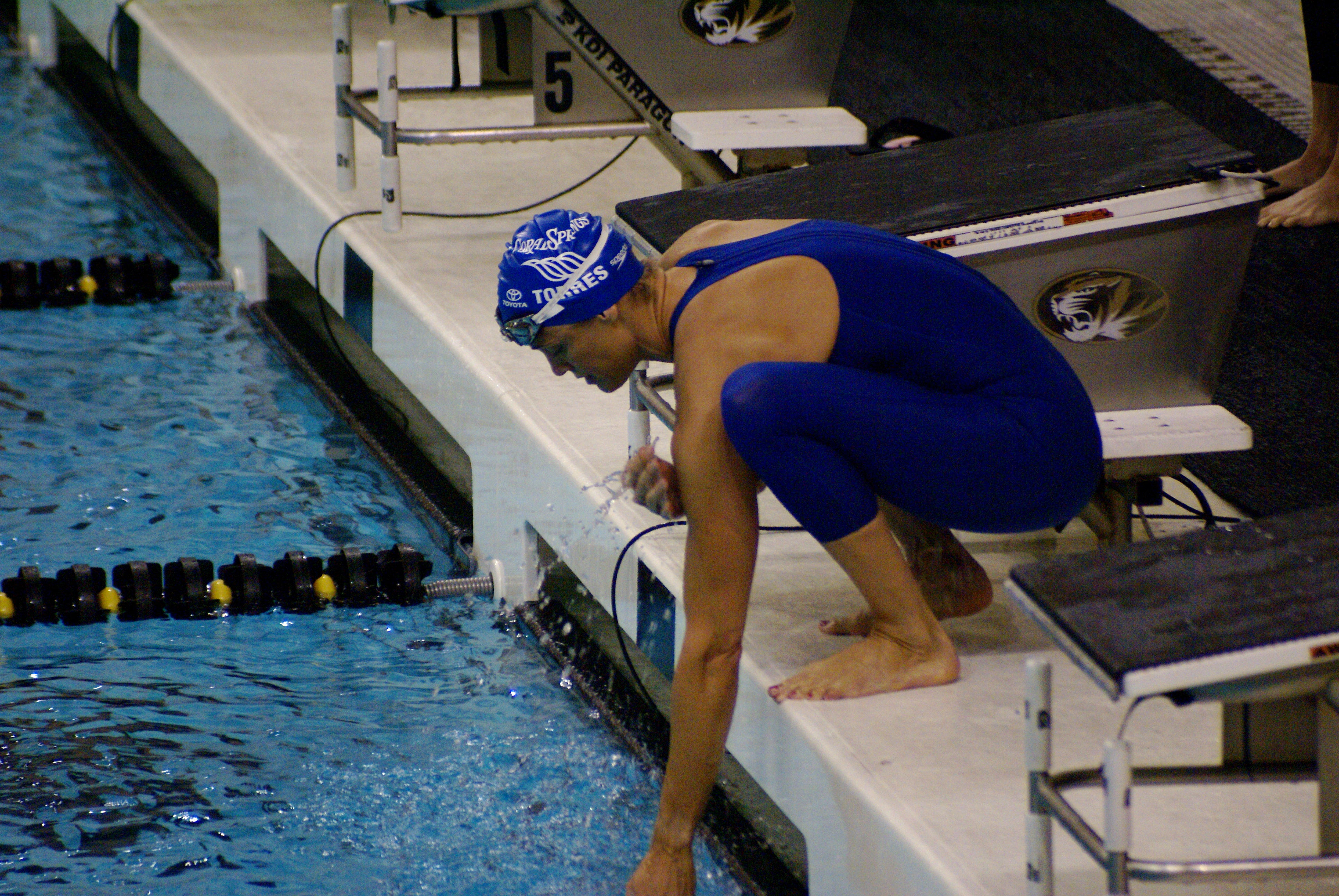 Photo of American swimer Dara Torres at the Missouri Grand Prix.